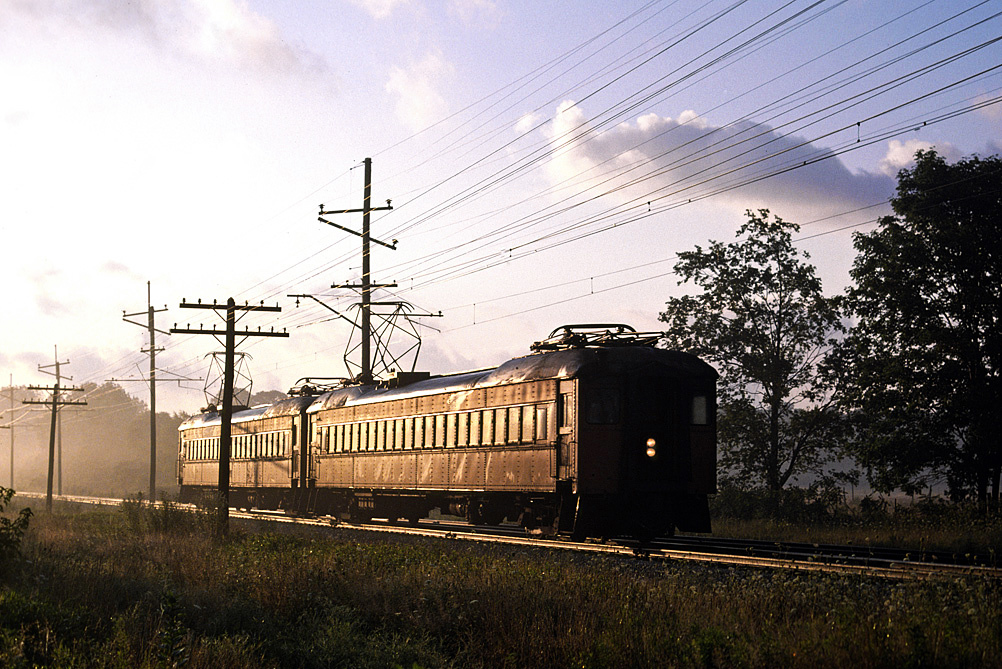 Westbound from South Bend, IN and heading to Chicago. Early morning at Springville, IN